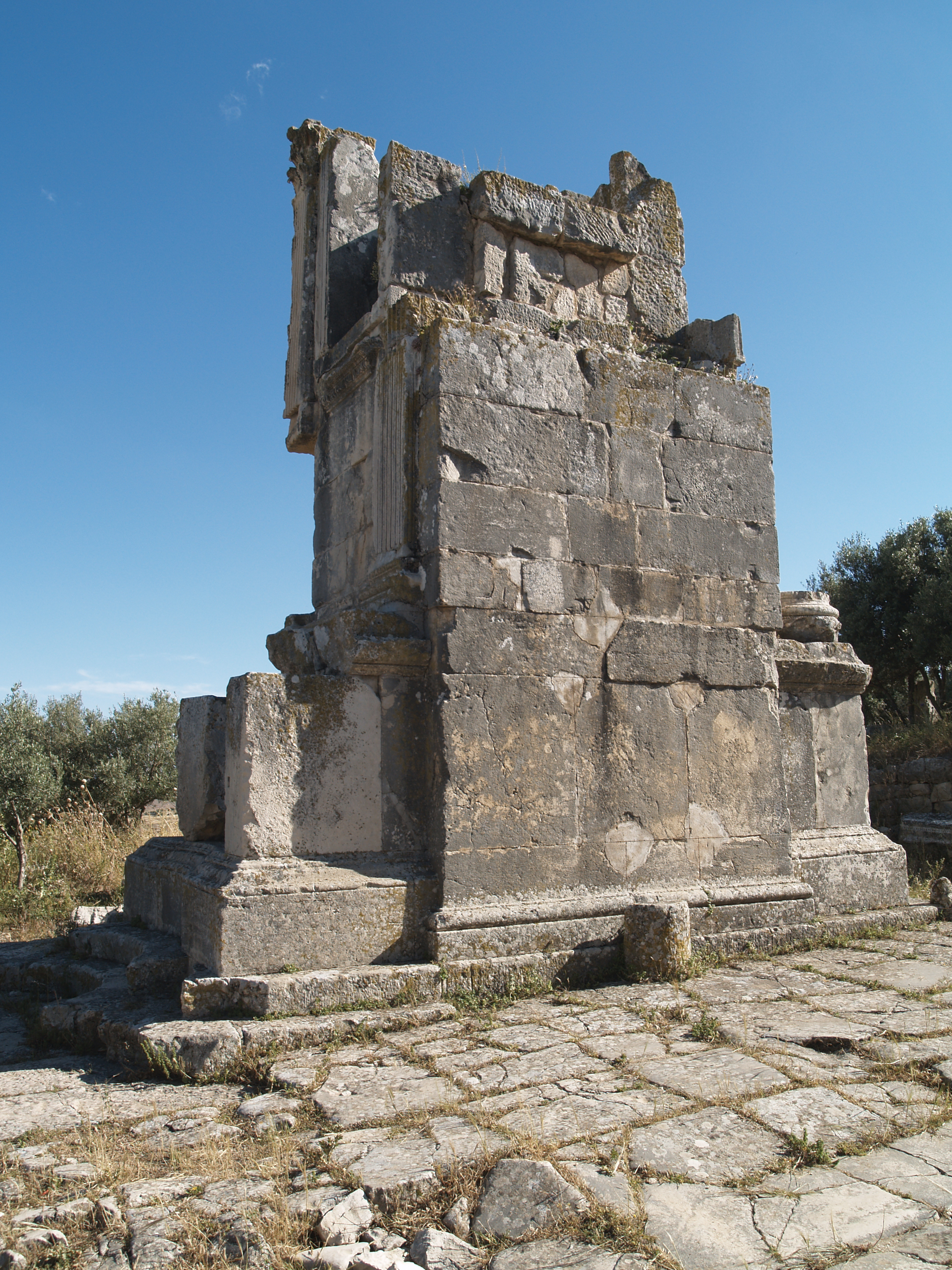 AWIB-ISAW: Arch of Septimus Severus The archaeological remains of the arch of Septimus Severus in Dougga, Tunisia. by Graham Claytor (2007) copyright: 2007 Graham Claytor (used with permission) photographed place: Dougga [1] Published by the Institute for the Study of the Ancient World as part of the Ancient World Image Bank (AWIB). Further information: [2].